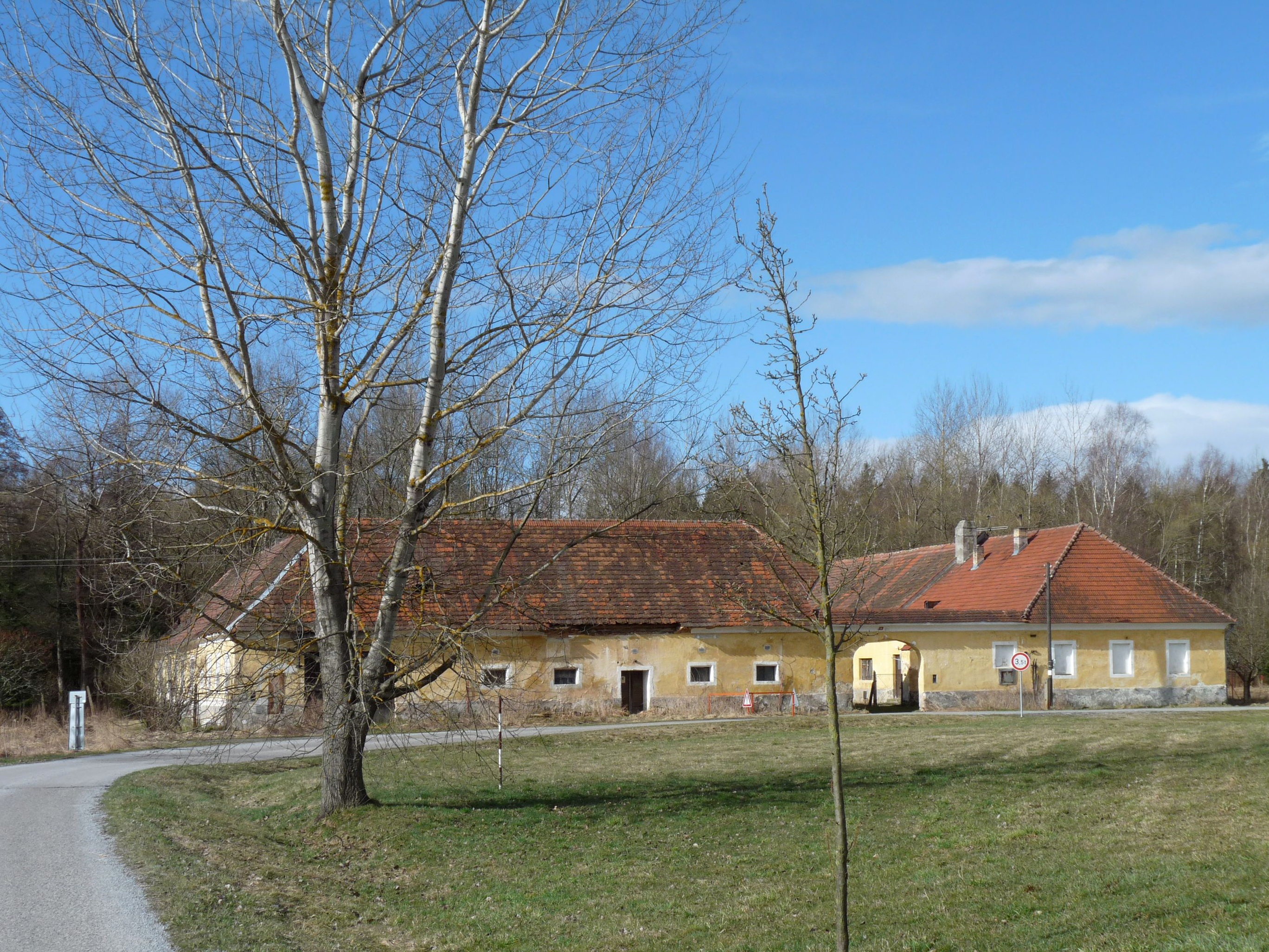 House No 23 in the village of Byňov, České Budějovice District, South Bohemian Region, Czech Republic.